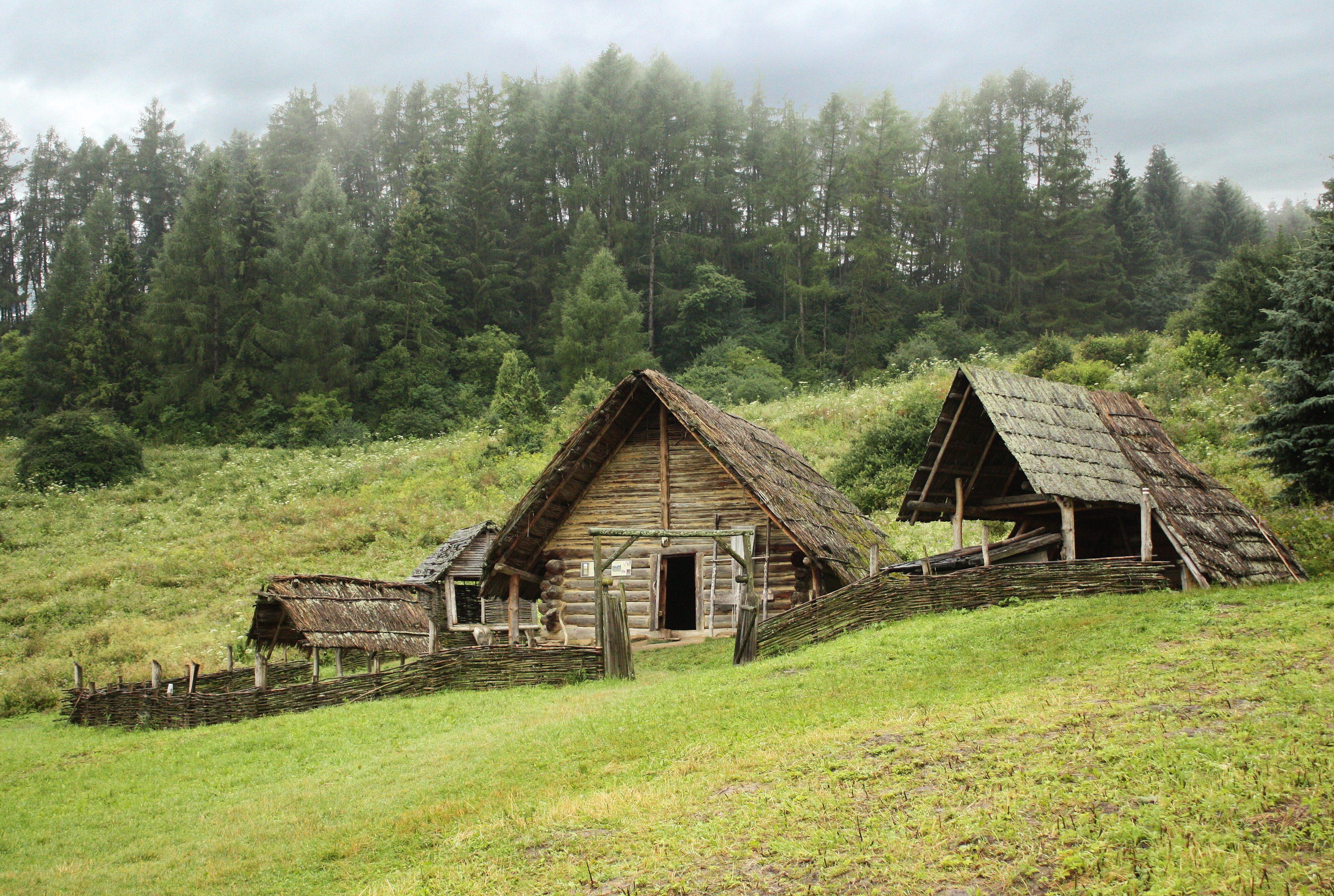 Open-Air Archaeological Museum Liptovska Mara - Havranok,Slovakia. Reconstructed shape of a farmstead from the Upper Iron Age (300-100 B.C.